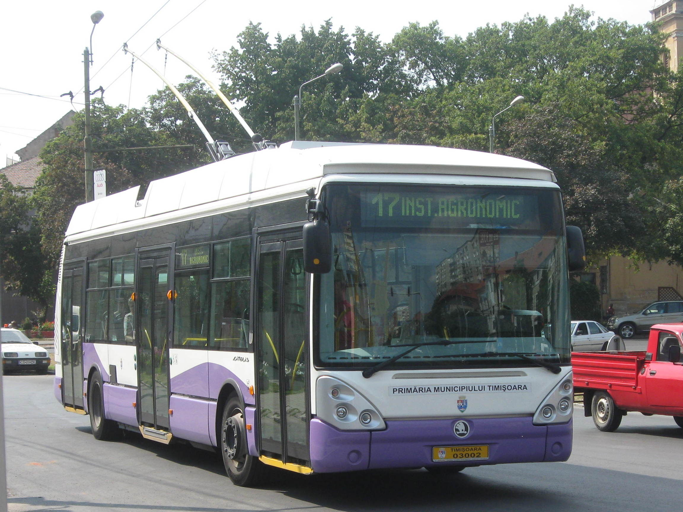 Timişoara trolleybus 3002, a 2007/8 Škoda 24Tr Irisbus Citelis, on route 17. It entered service in 2008.